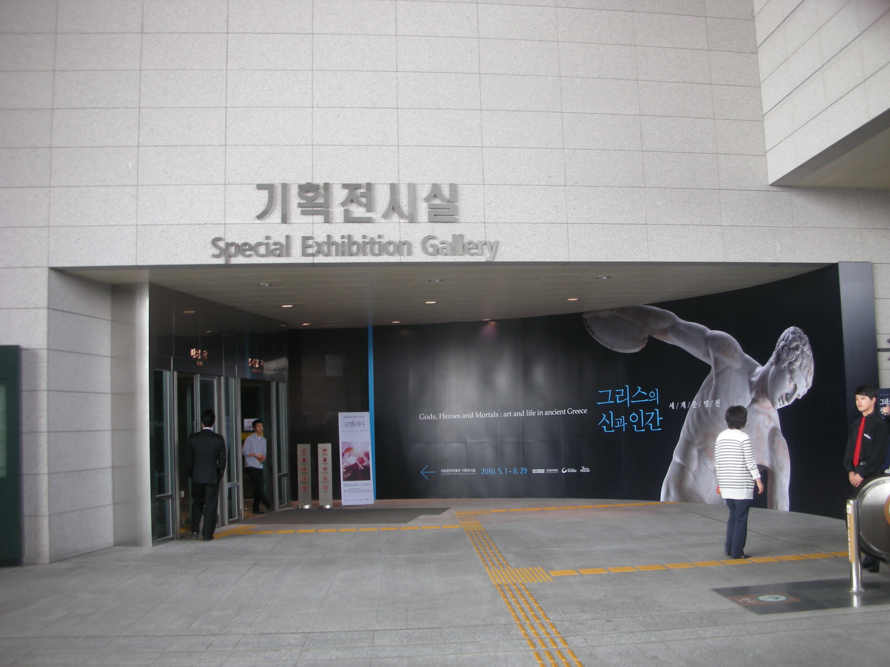 Gate of Special Exhibiton Gallery located in National Museum of Korea